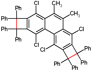 Unusual bond length